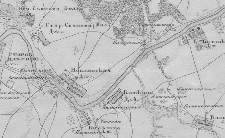 Stone quarries near villages Star. Syanova and Kamkina on the map of Moscow outskirts from 1878